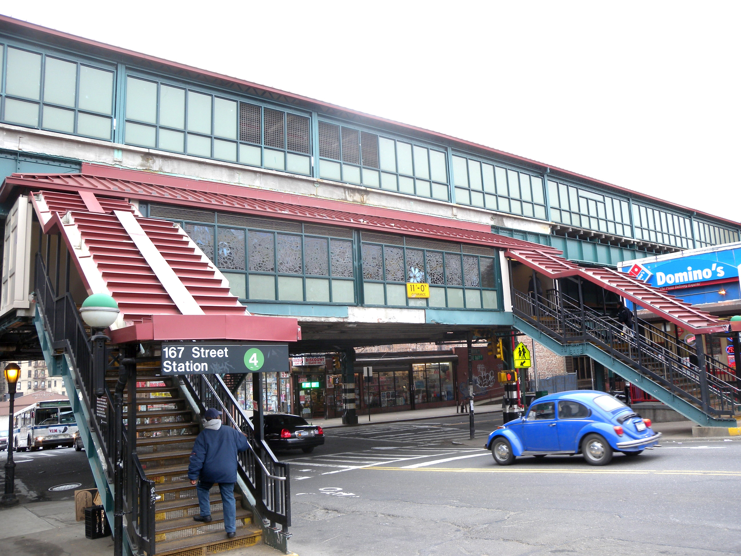 Looking north at en:167th Street (IRT Jerome Avenue Line) on a cloudy midday.